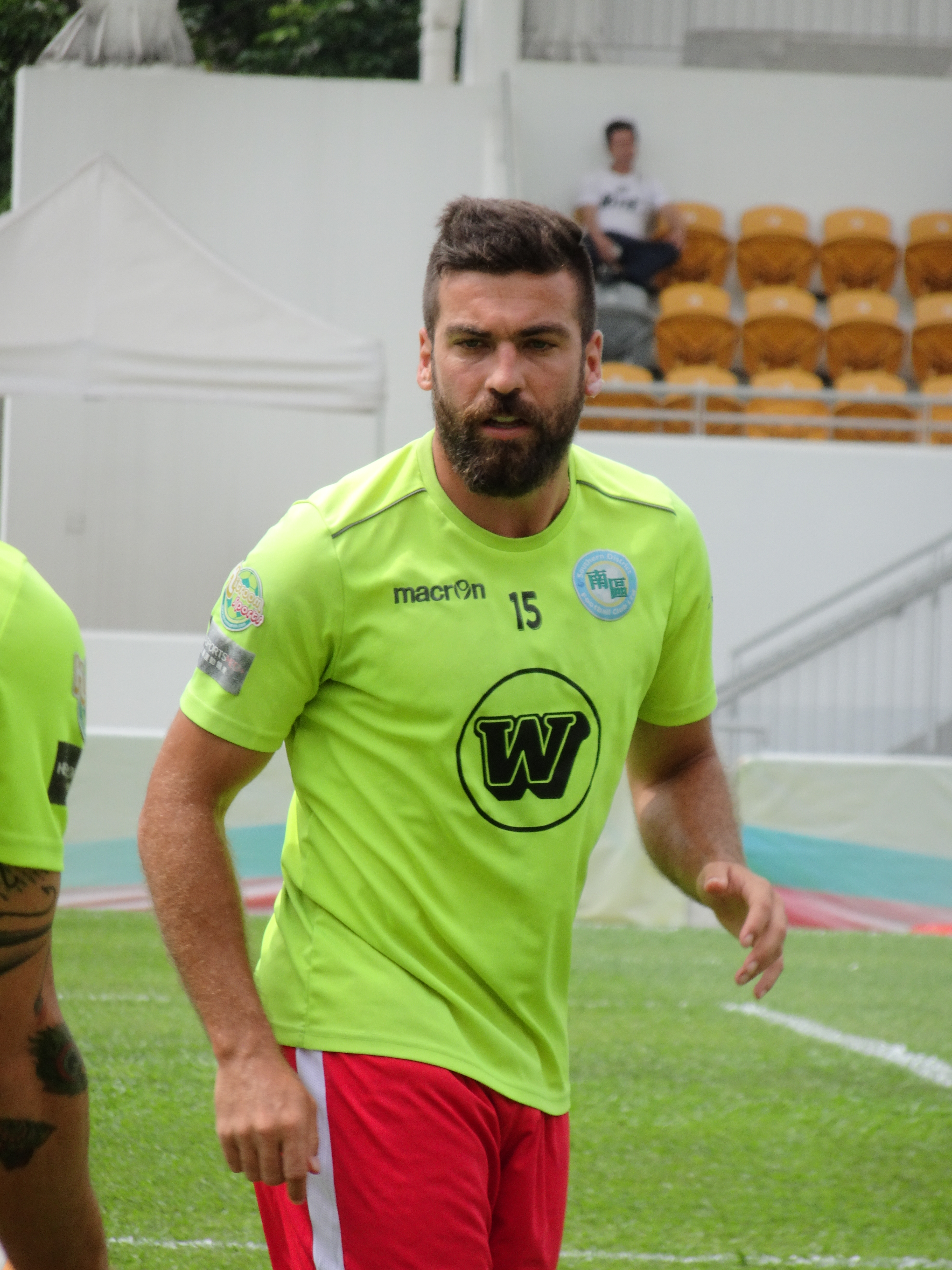 Carles Marc Martínez Embuena (5 May 2018, Hong Kong FA Cup semi-final, Tai Po vs Southern, Mong Kok Stadium)